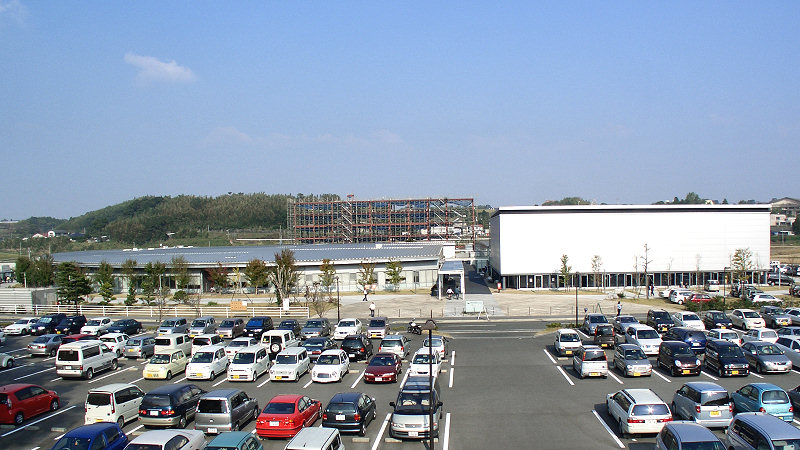 Kumamoto Health Scienth University 撮影者/著者/著作権保有者 : MK Products 撮影日 : 2006/11/03